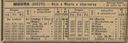 Timetable of the trains between Beja and Moura, in Portugal, on the 1st July 1913. This image was published on the Guia Official dos Caminhos de Ferro de Portugal No. 168, of October 1913, and scanned by the Biblioteca Nacional de Portugal.